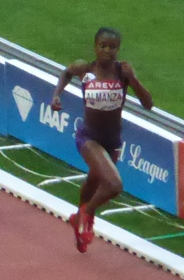 Rose Mary Almanza at the 2015 Meeting Areva, Stade de France, Paris.